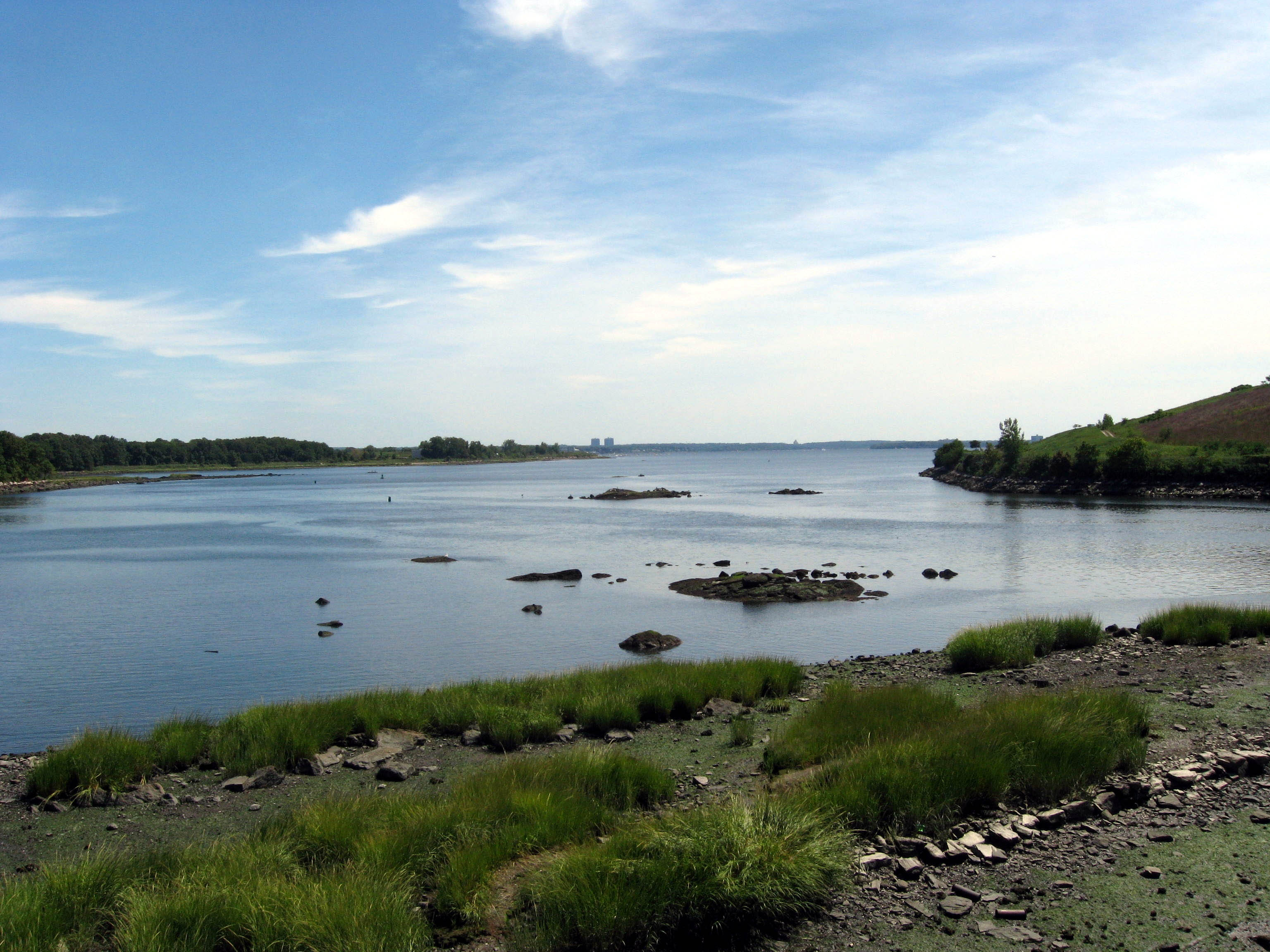 Looking southeast out the mouth of the Hutchinson River from Pelham Bridge in Pelham Bay Park on a sunny midday